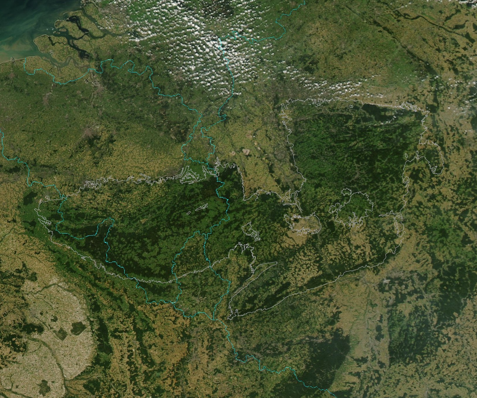 Outline (grey) of Rheinisches Schiefergebirge drawn on satellite image with state boundaries (cyan) for orientation.